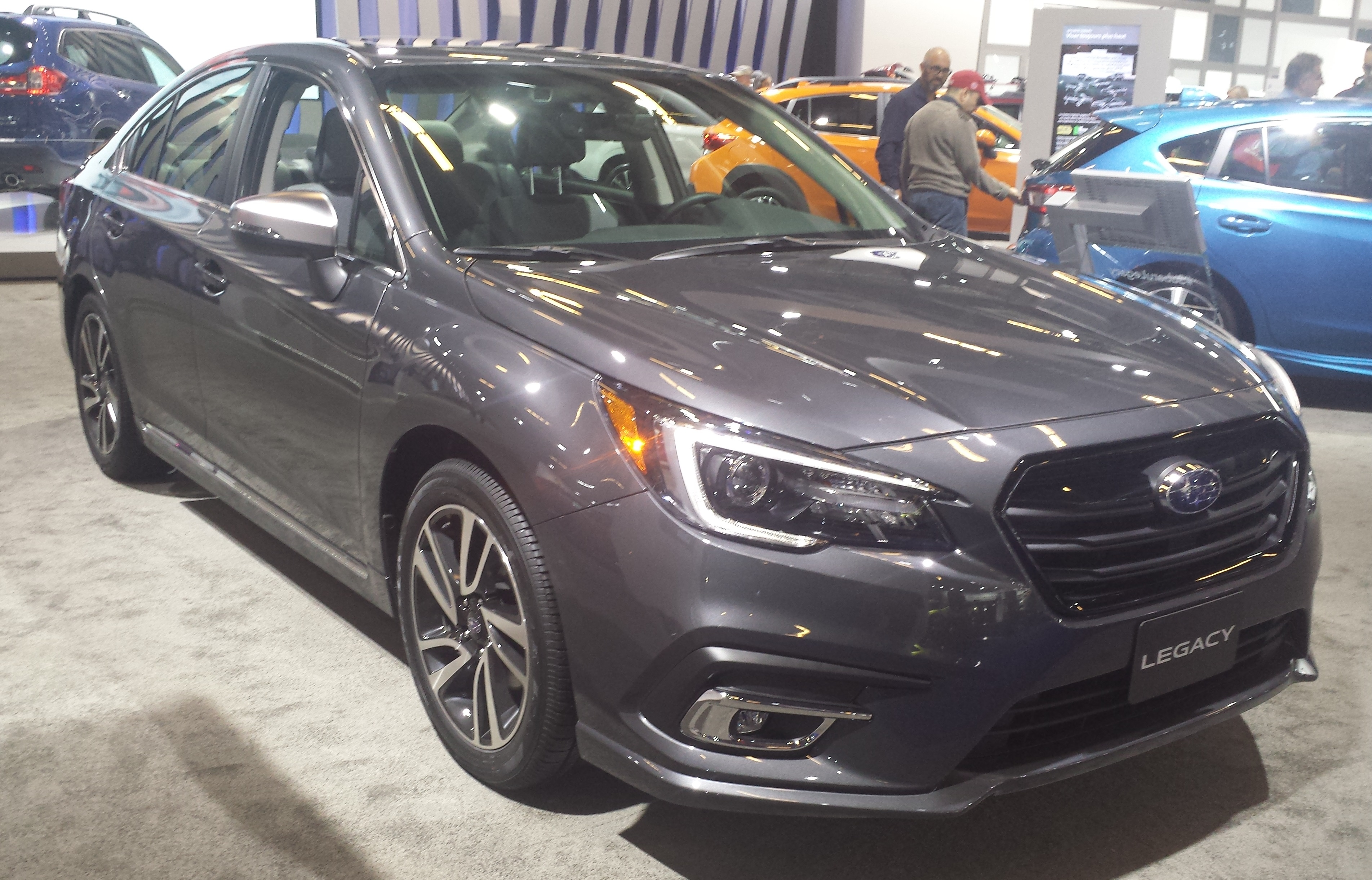 2018 Subaru Legacy photographed in Montréal , Québec , Canada at the 2018 Montréal International Auto Show.